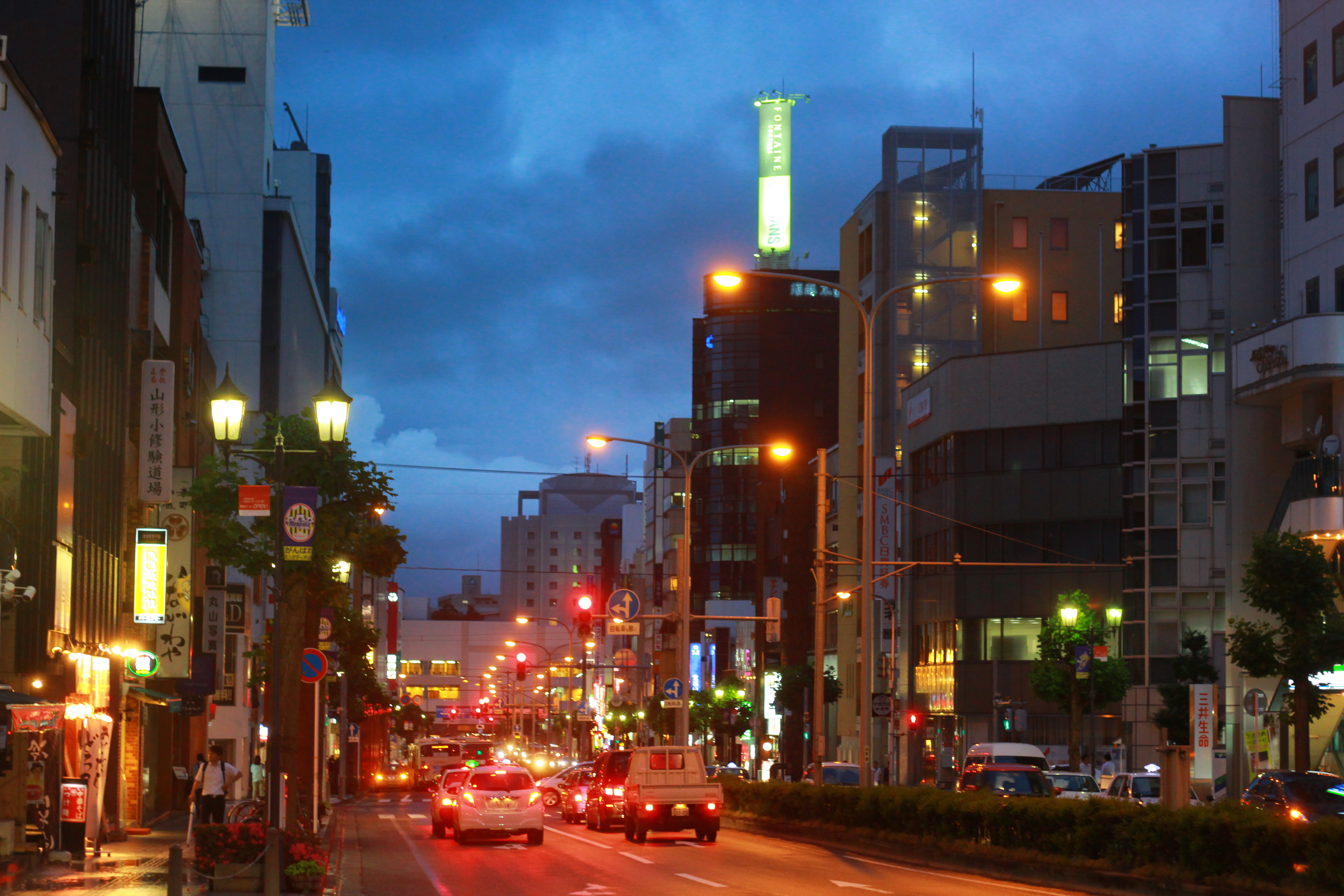 Downtown Yamagata city, an early summer night.